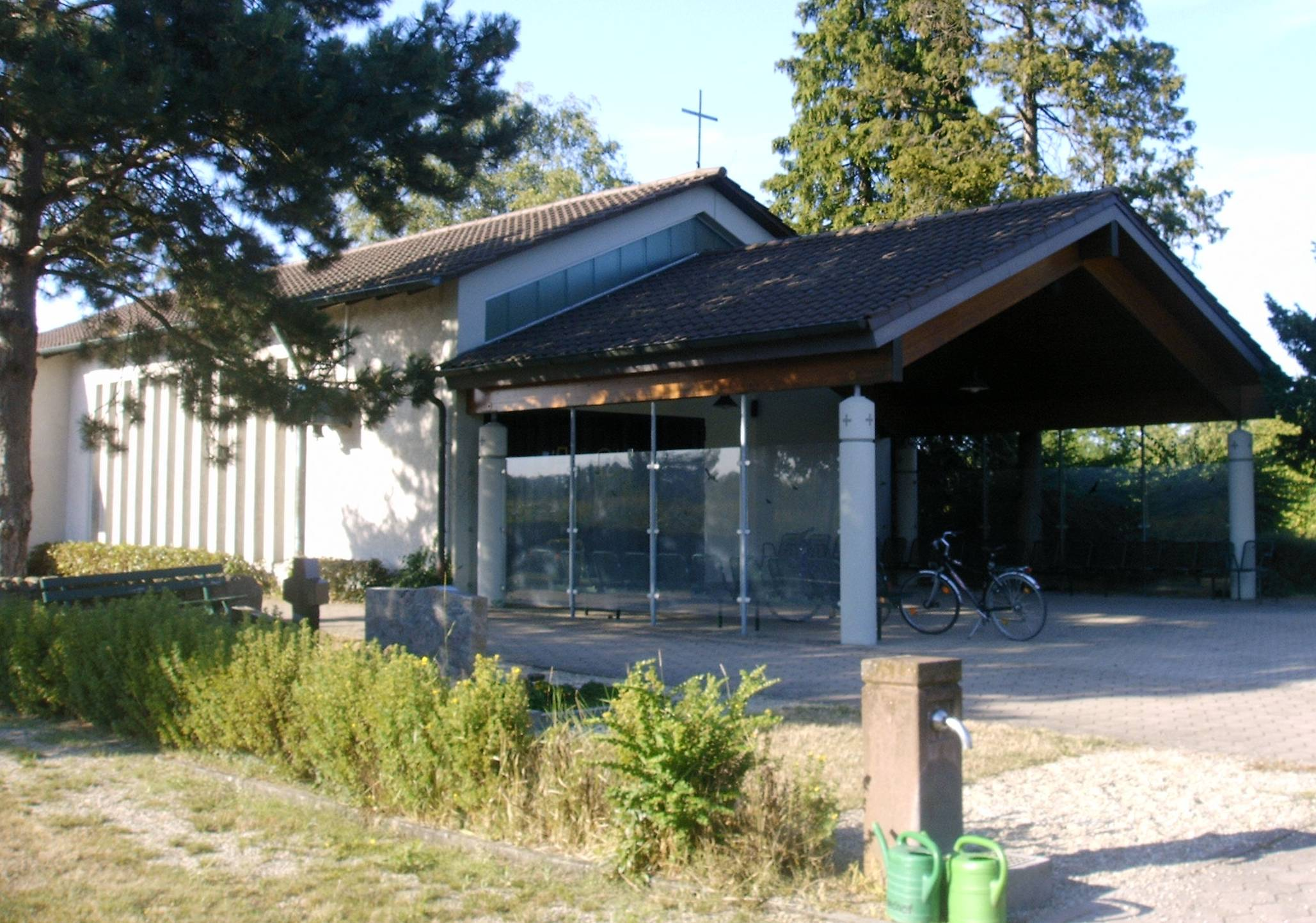 Mortuary from 1968 in Ottersdorf, part of Rastatt, Germany